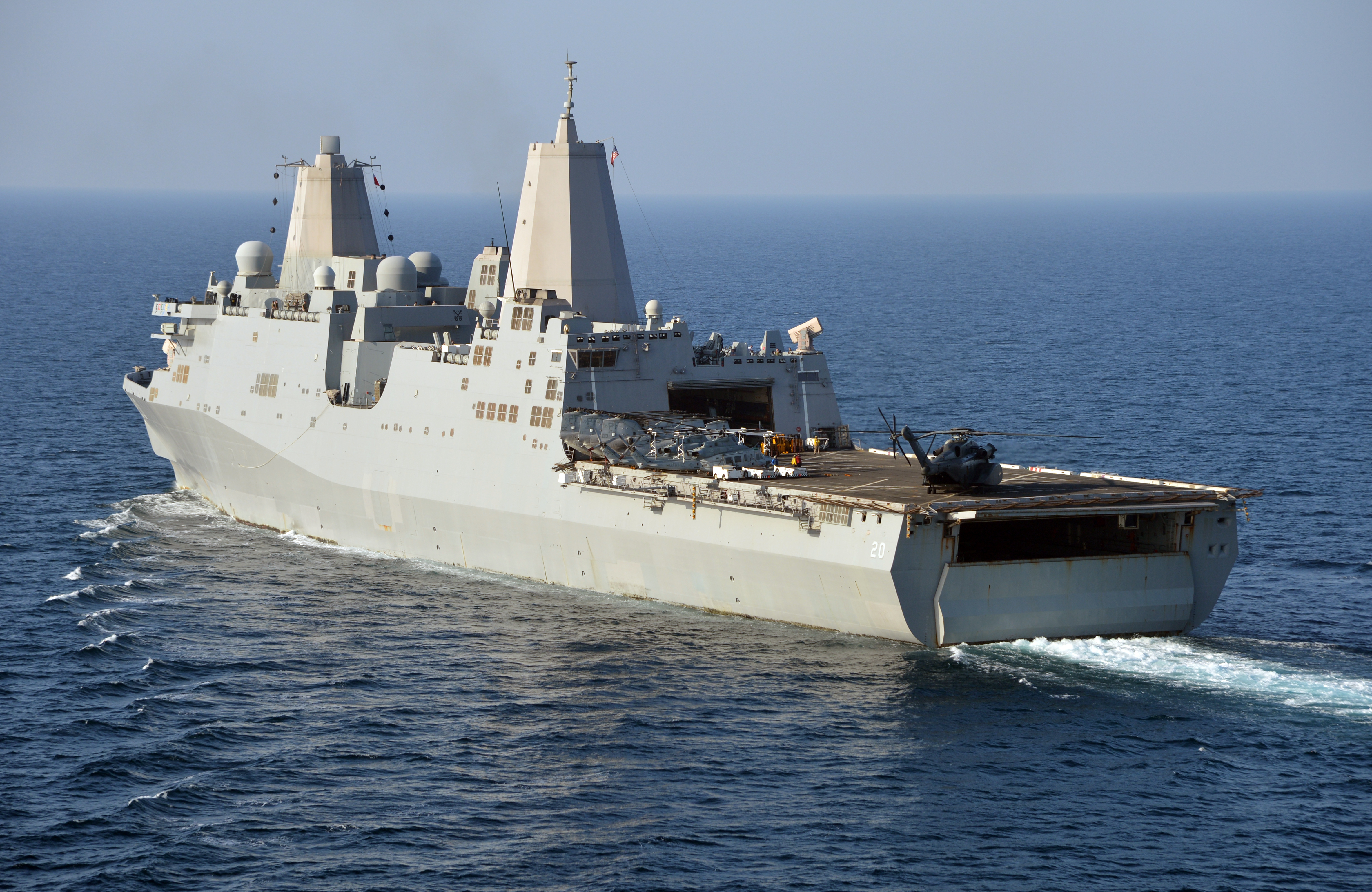 An MH-53E Sea Dragon from Helicopter Mine Countermeasures Squadron (HM) 15, prepares to take off from the flight deck of USS Green Bay (LPD 20). HM 15 is deployed with Commander, Task Force 52, promoting mine countermeasures in the U.S. 5th Fleet area of responsibility. (U.S. Navy photo by Mass Communication Specialist 2nd Class Scott Raegen/ Released)